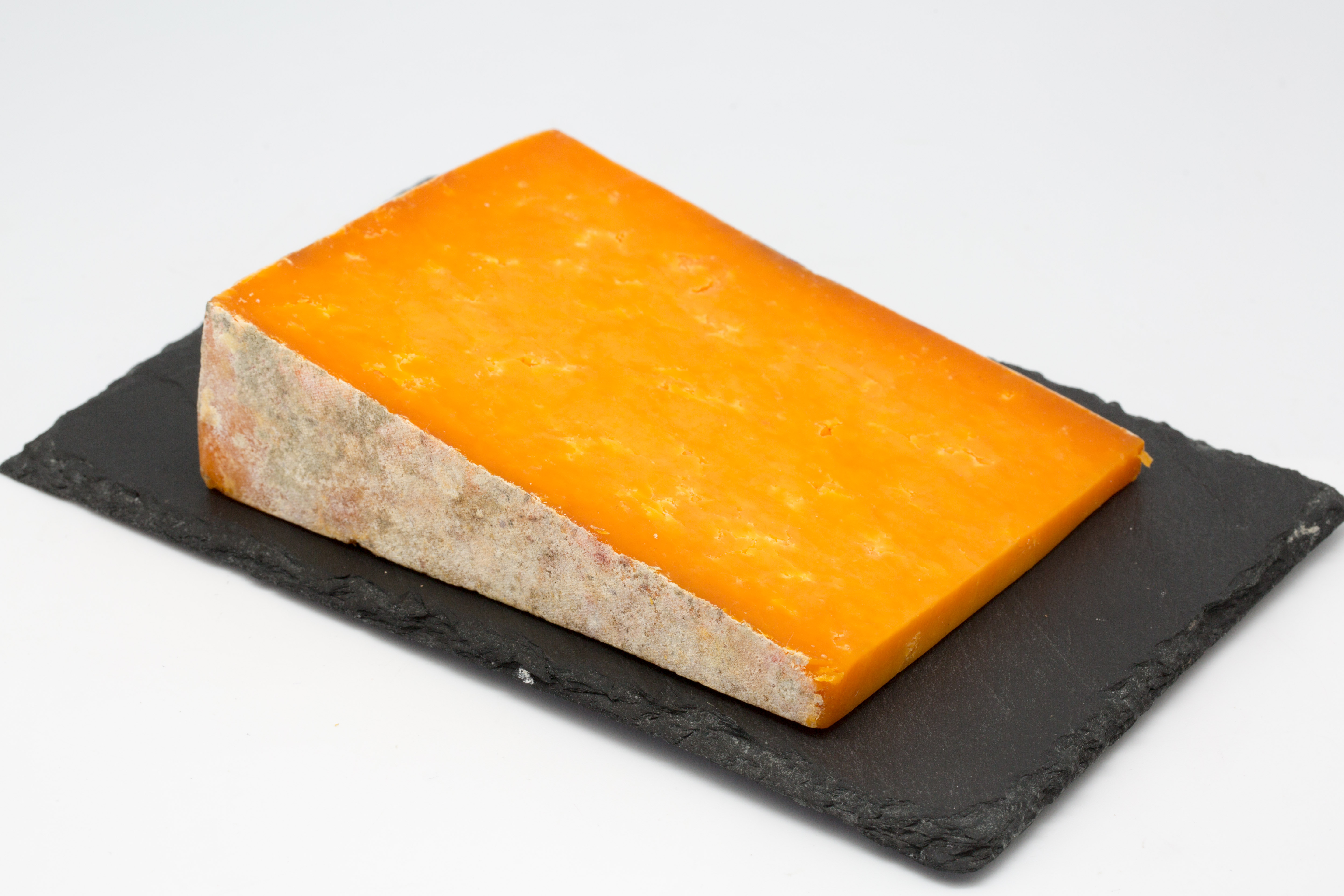 Cheese